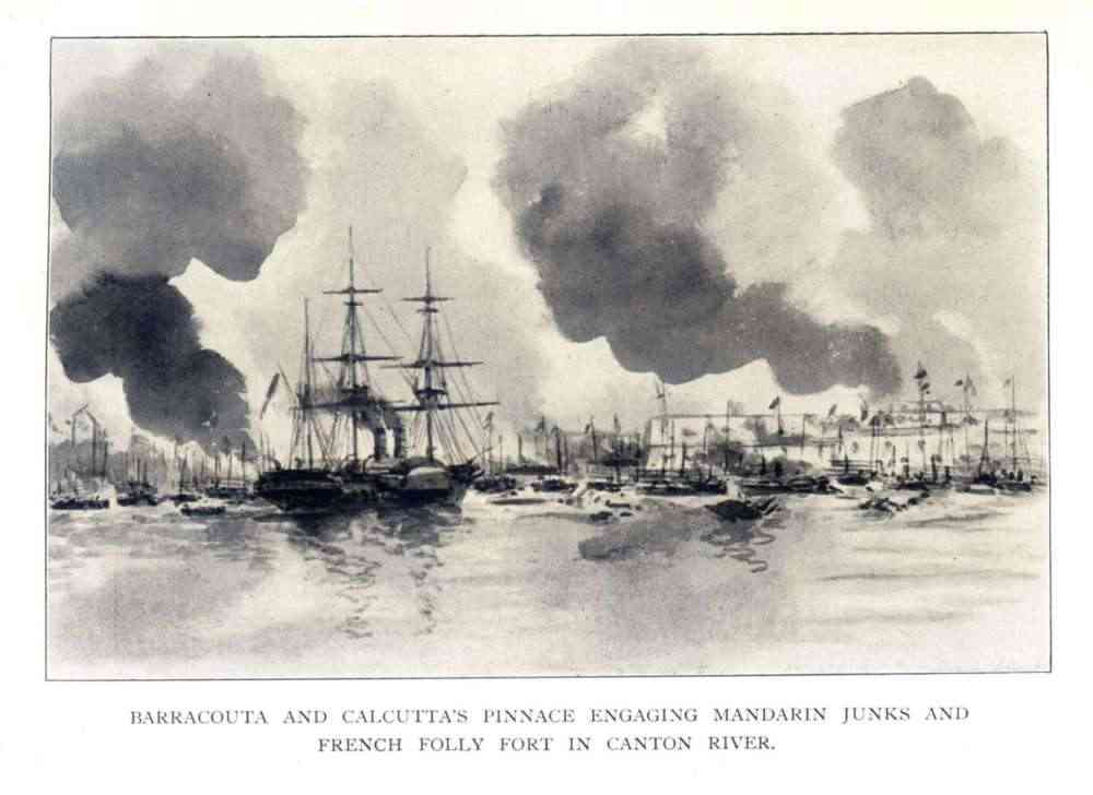 Barracouta and Calcutta's pinnace engaging mandarin junks and the French Folly Fort in the Canton River.